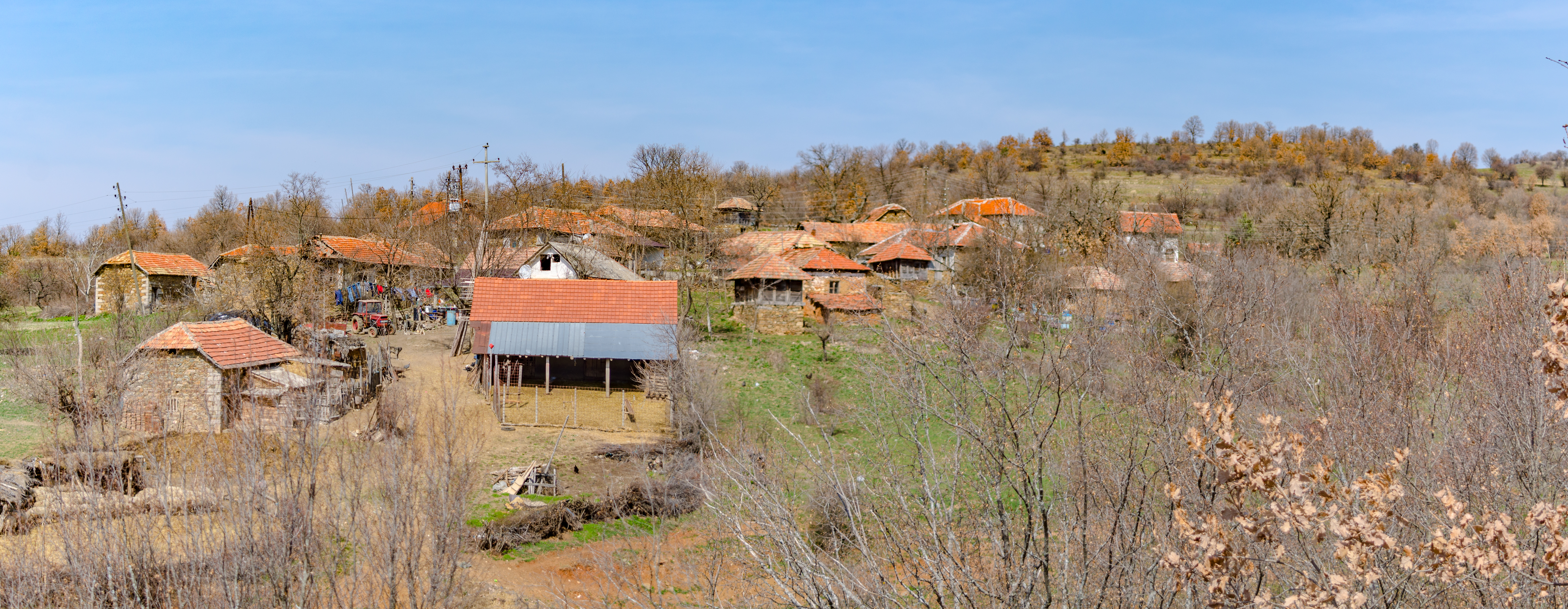 Panoramic view of Karlovce